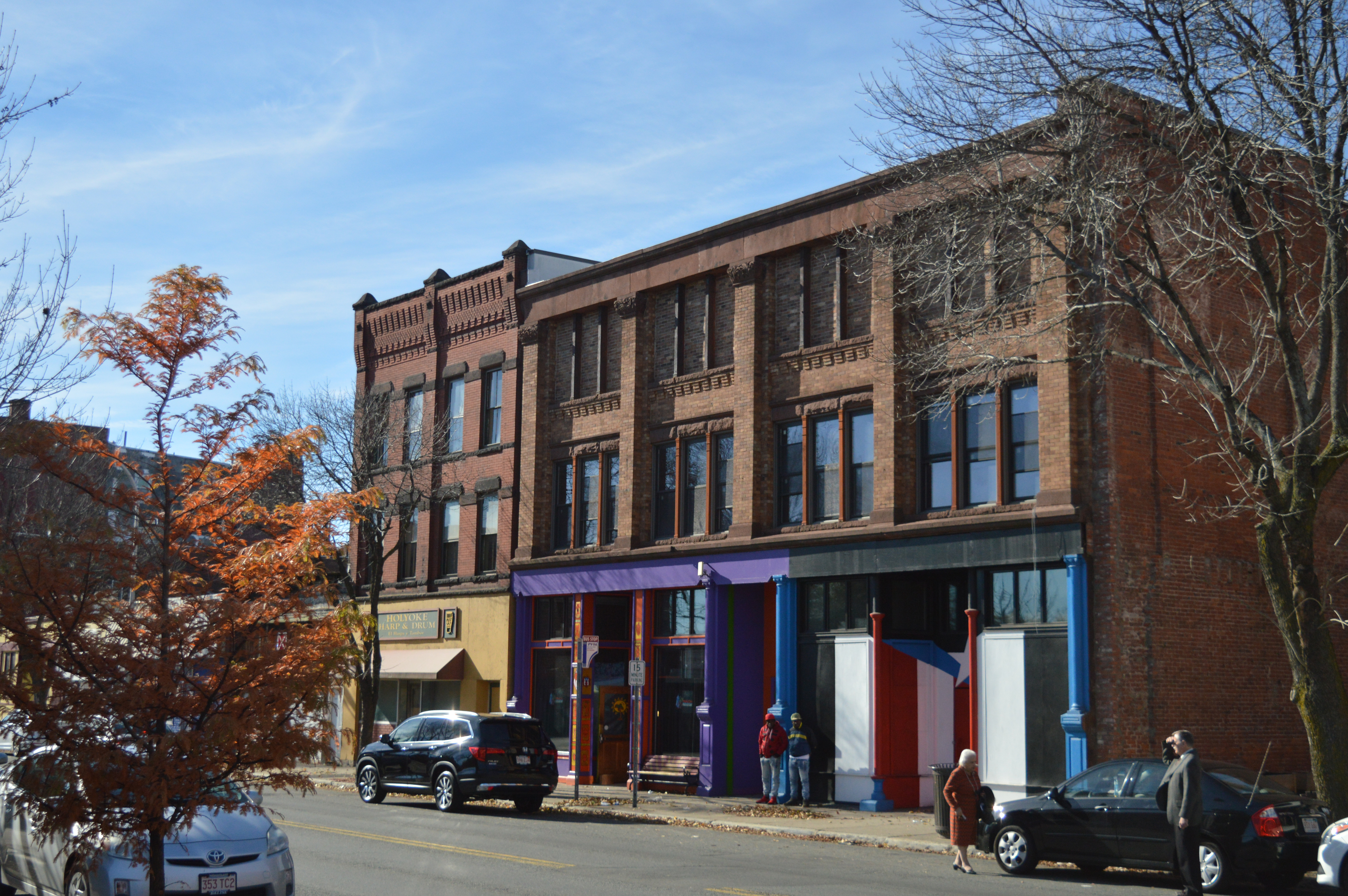 The ornate colorful entrance to the Puerto Rican-Afro Caribbean Cultural Center in the South Holyoke neighborhood of Holyoke, Massachusetts. Formerly known as El Mercado (The Market), the venue serves as a site for plays, live music, fundraisers, and also as a neighborhood community center.